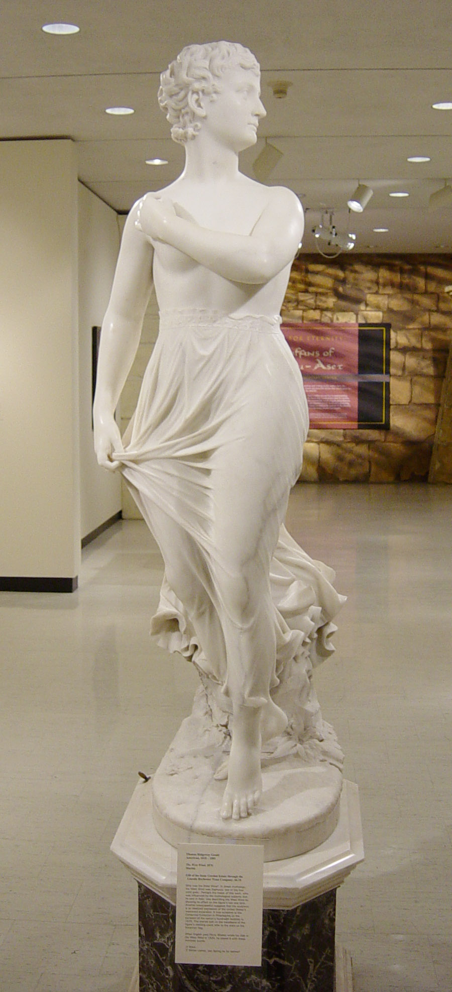 At the Memorial Art Gallery of the University of Rochester, Rochester, New York Thomas Ridgeway Gould American 1818 - 1881 For more information about this sculpture, see Seeing America: Painting and Sculpture from the Collection of the Memorial Art Gallery of the University of Rochester, essay 21, by Cynthia Culbert, Assistant Curator, or go to From the curator's card: thumb|right|150px|Profile view thumb|right|150px|Detail view The West Wind, 1876 Marble Gift of the Isaac Gordon Estate through the Lincoln Rochester Trust Company, 66.18 Who was the West Wind? In Greek mythology the West Wind was Zephyrus, one of the four wind gods. Perhaps the maker of this work, who was influenced by the mythological subects that he saw in Italy, was describing the West Wind by showing its effect on the figure's hair and skirt. Another interpretation suggests that the sculpture is an idealized expression of the United State's westward expansion. This sculpture or another version of it was exhibited at the Centennial Exhibition in Philladelpia on the occasion of the nation's hundredth birthday in 1876. The starred belt on the waistband of the figure's clothing could refer to the stars on the American flag. When English poet Percy Shelley wrote his Ode to the West Wind in 1820, he closed it with these immortal words: O WInd, If Winter comes, can Spring be far behind? Image by User:Leonard G.